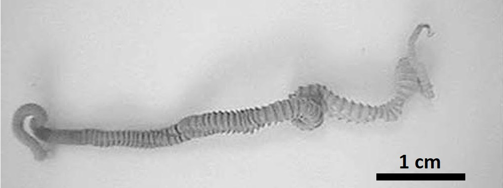 Gigantorhynchus ortizi isolated from the intestine of a Brown four-eyed opossum in Peru